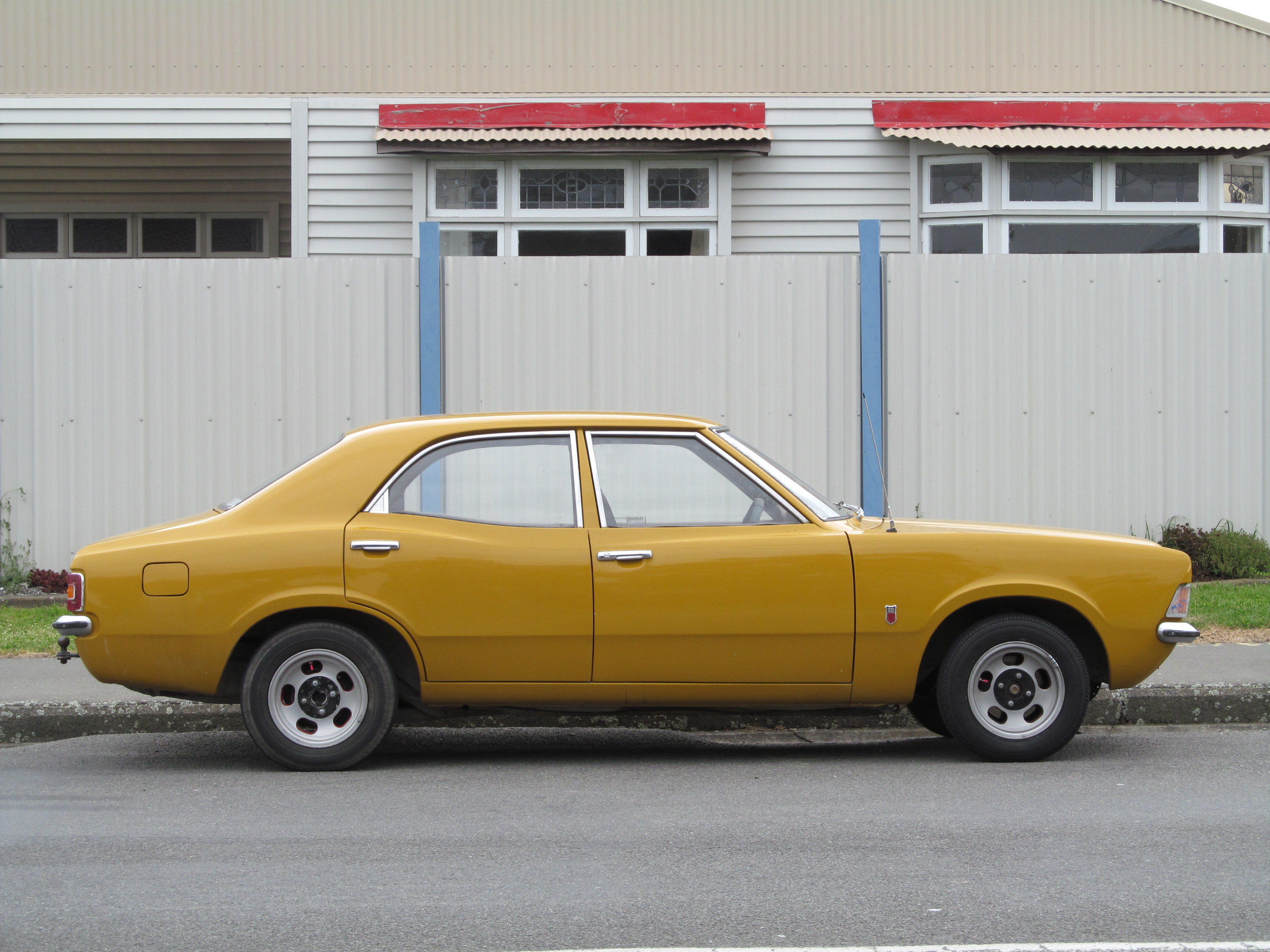 Christchurch, New Zealand. A Stephen Trinder-style shot!